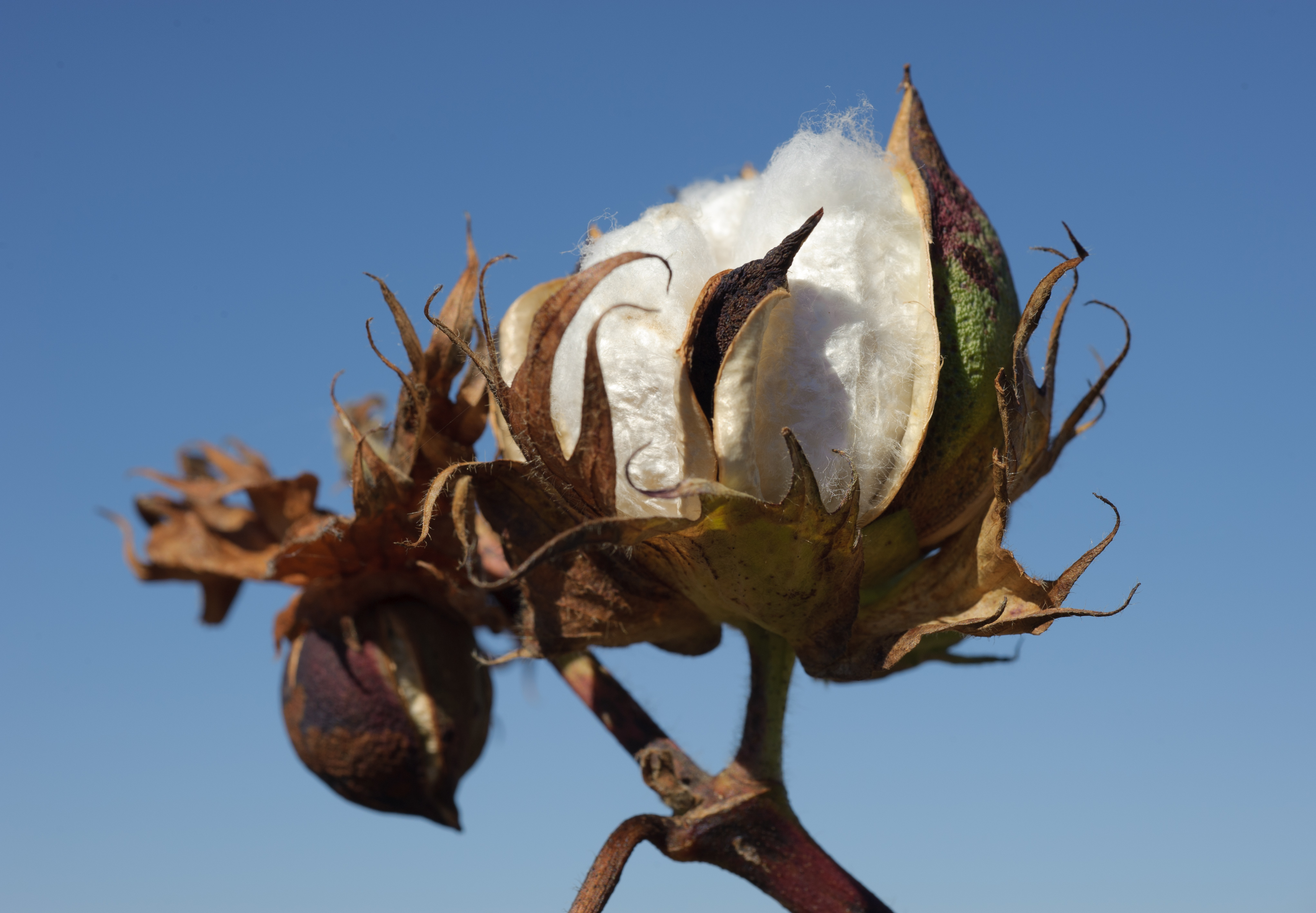 This image or file is a work of a United States Department of Agriculture employee, taken or made as part of that person's official duties. As a work of the U.S. federal government, the image is in the public domain.